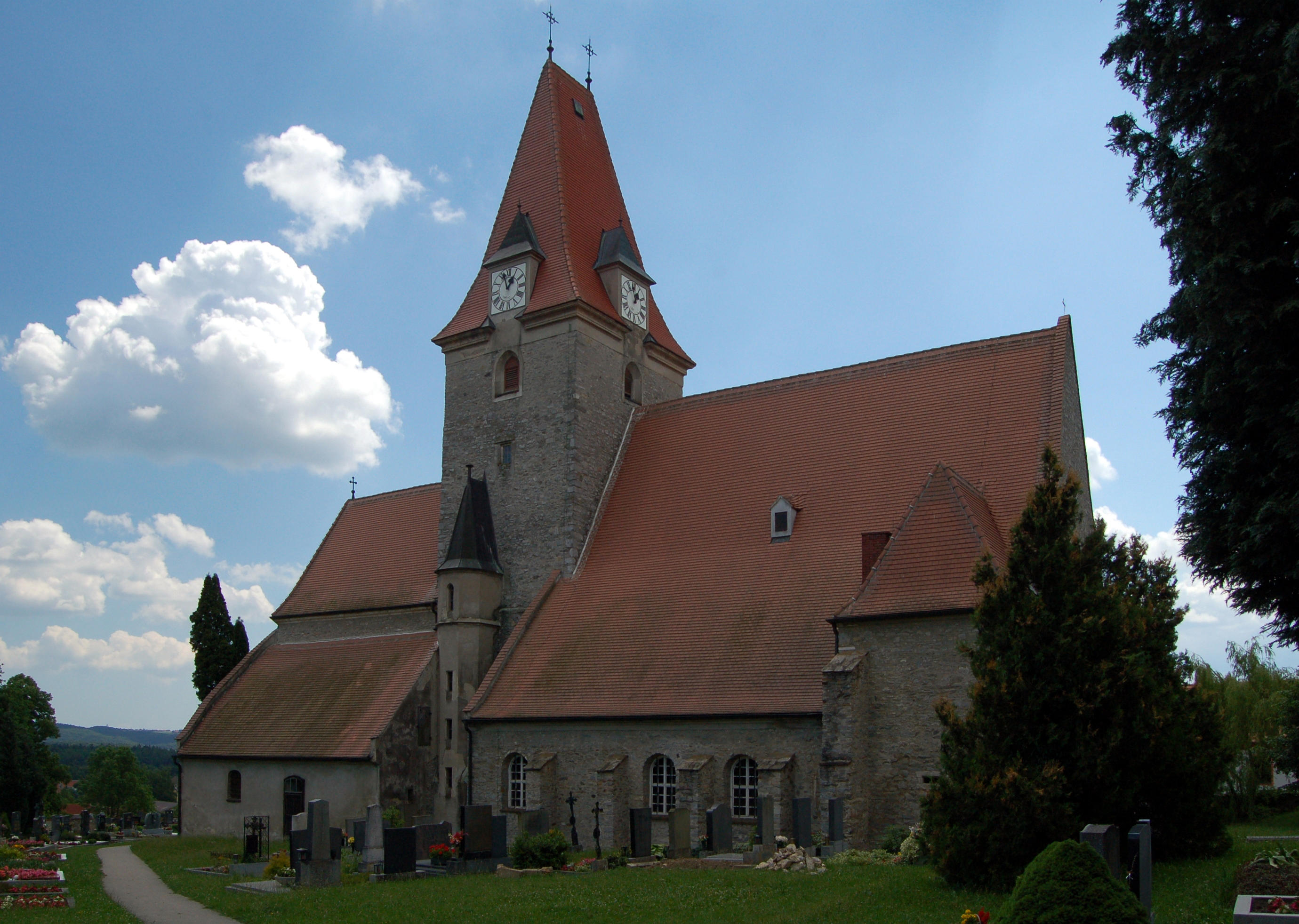 Parish church Mariae Himmelfahrt (assumption) in Altpölla, municipality of Pölla, Lower Austria, is protected as a cultural heritage monument.